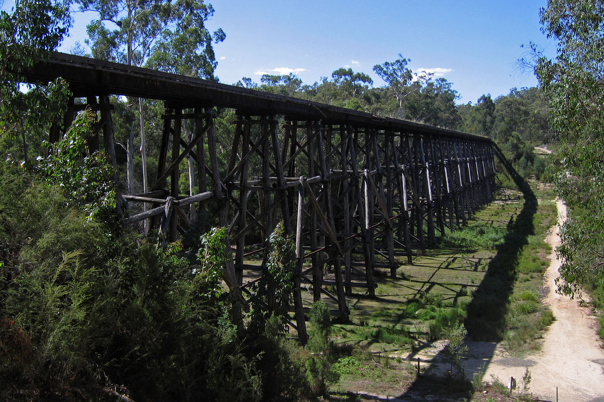 Stony Creek Trestle Bridge (aka Stoney Creek) looking east (towards Nowa Nowa) near Nowa Nowa on the East Gippsland Rail Trail (the white path at image right), Colquhoun State Forest, Victoria, Australia.